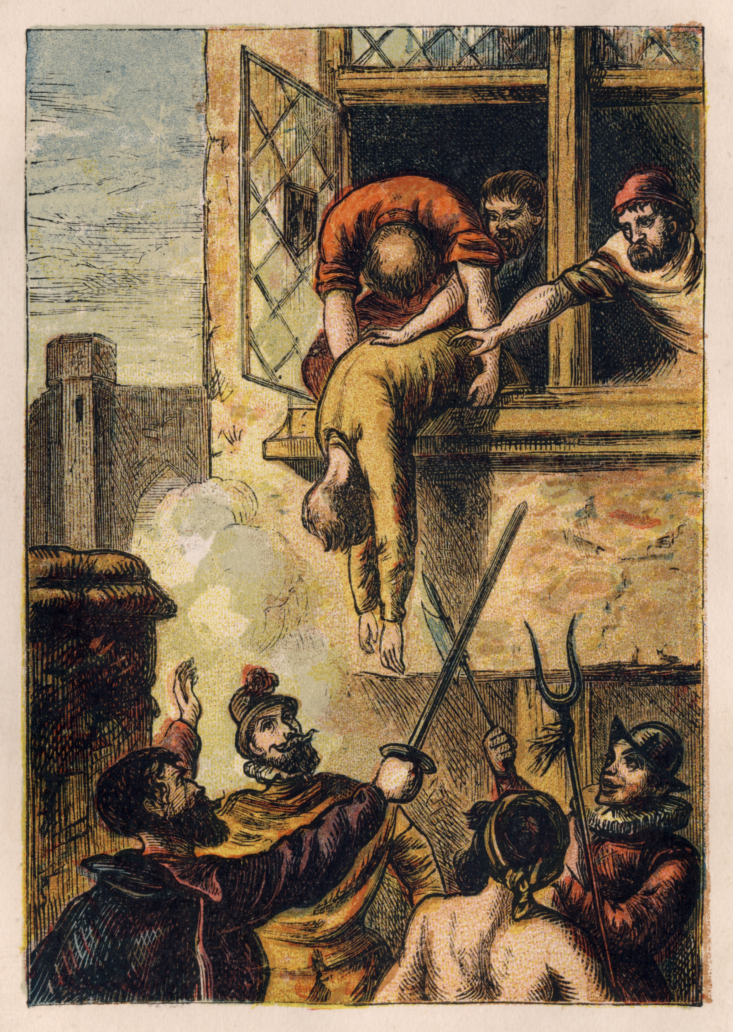 "Death of Admiral [Gaspard] de Coligny", from an 1887 copy of Foxe's Book of Martyrs illustrated by Kronheim.